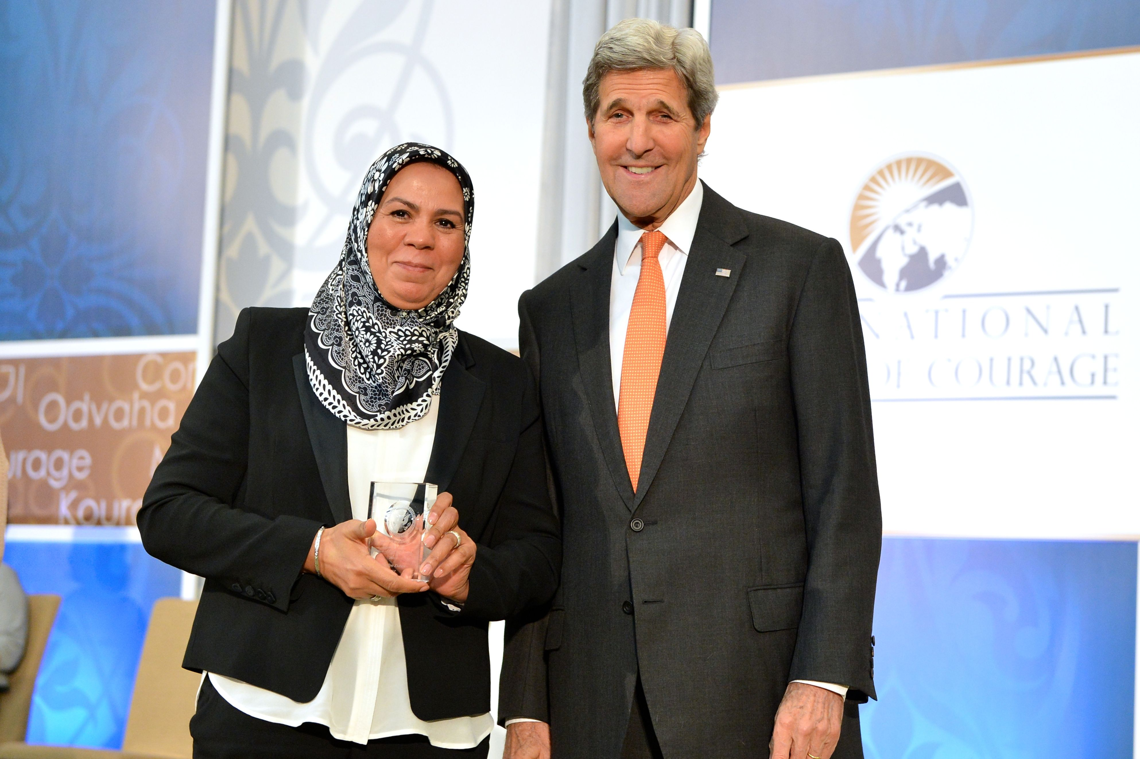 U.S. Secretary of State John Kerry presents the 2016 International Women of Courage Award to Latifa Ibn Ziaten of France, Interfaith Activist, at the U.S. Department of State in Washington, D.C., on March 29, 2016. [State Department photo/ Public Domain]